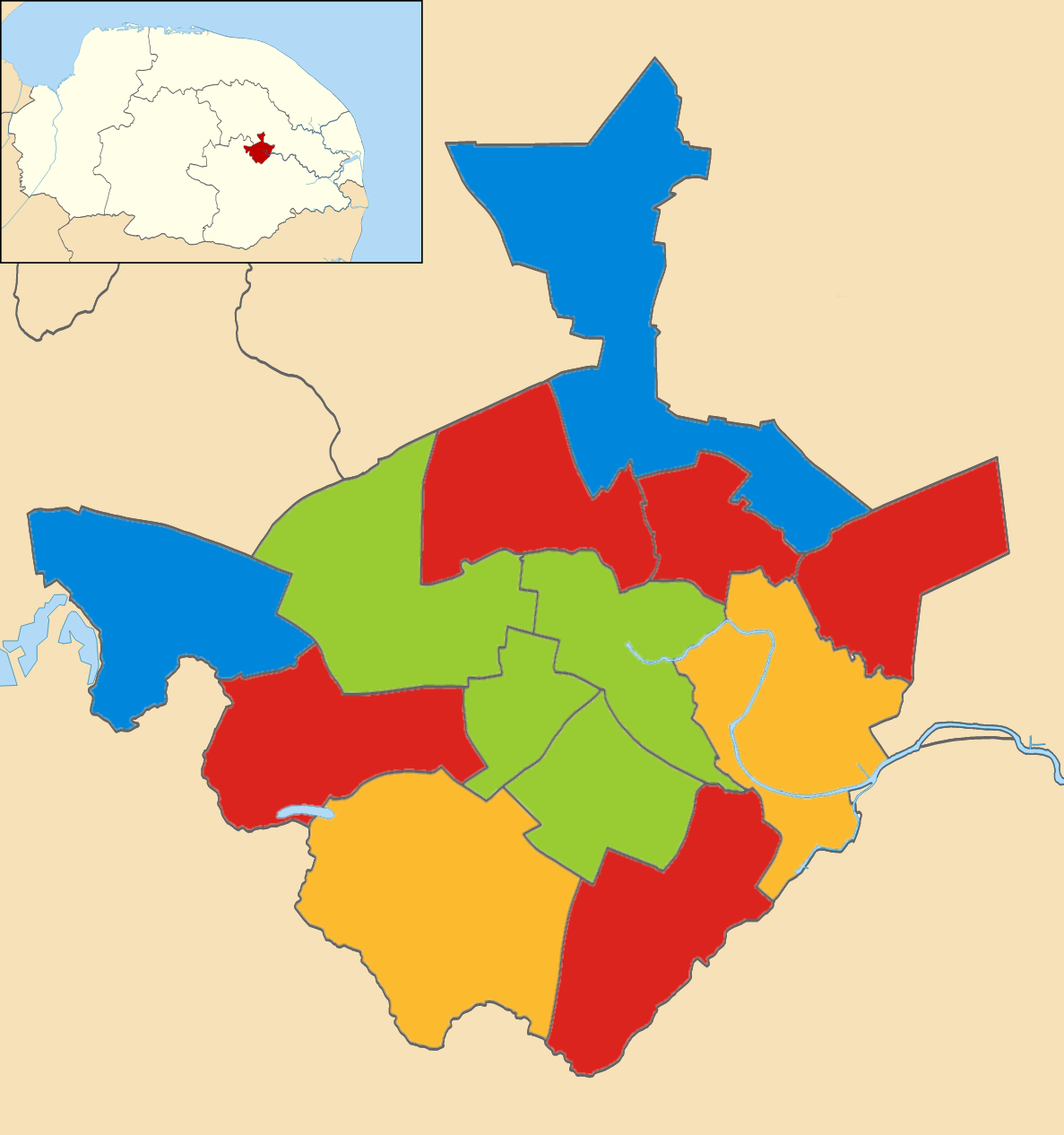 Results of the 2007 local elections in Norwich Colours: Conservative Labour Liberal Democrat Green Party